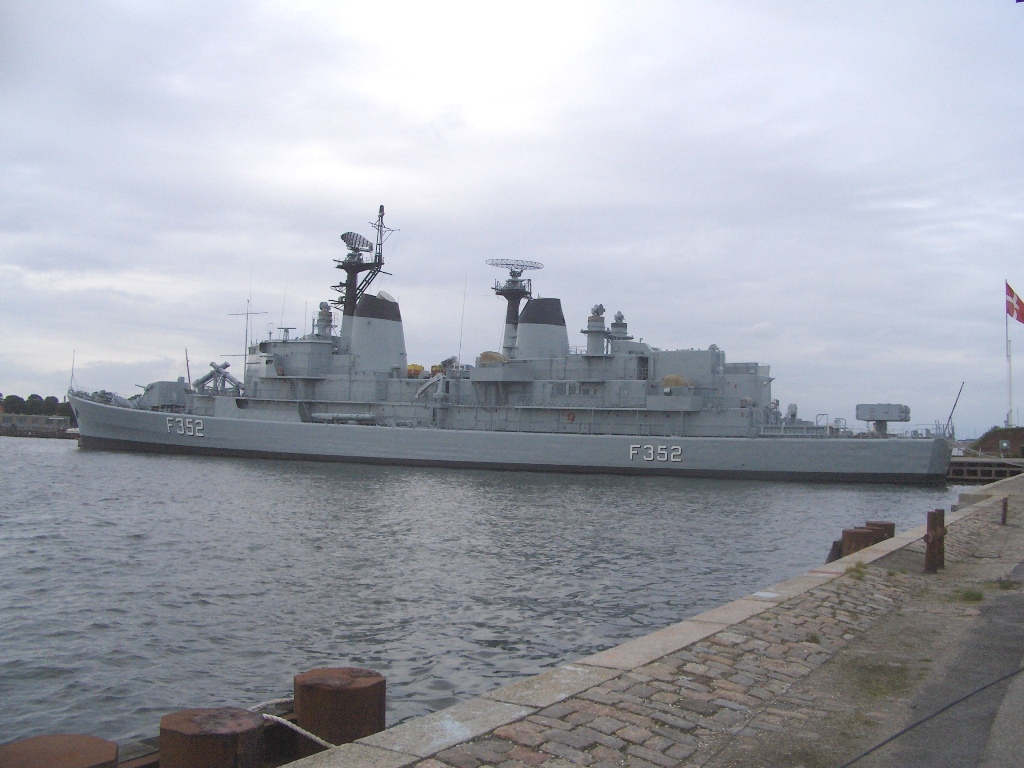 Decommissioned danish ship Peder Skran